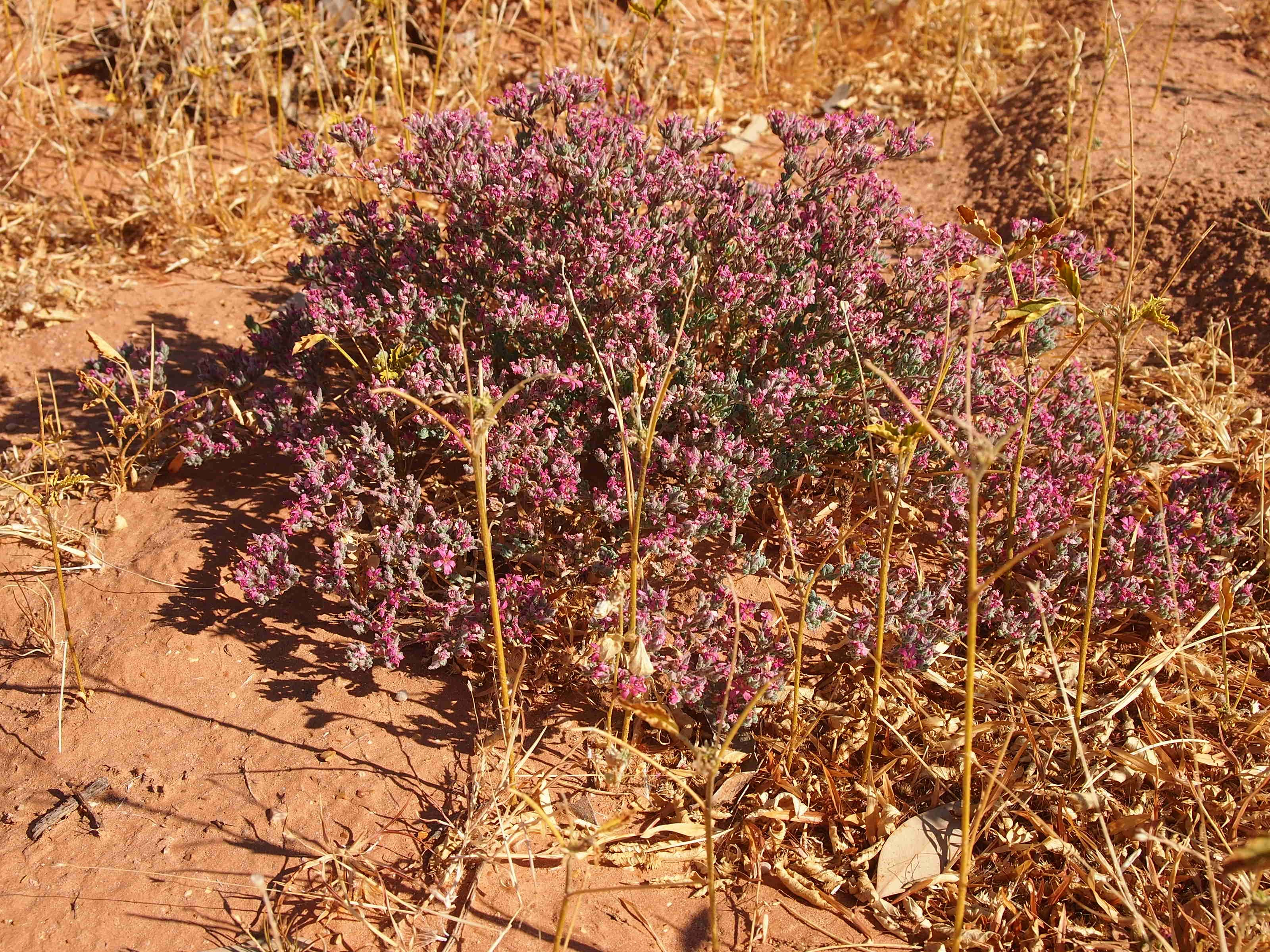 Frankenia serpyllifolia habit